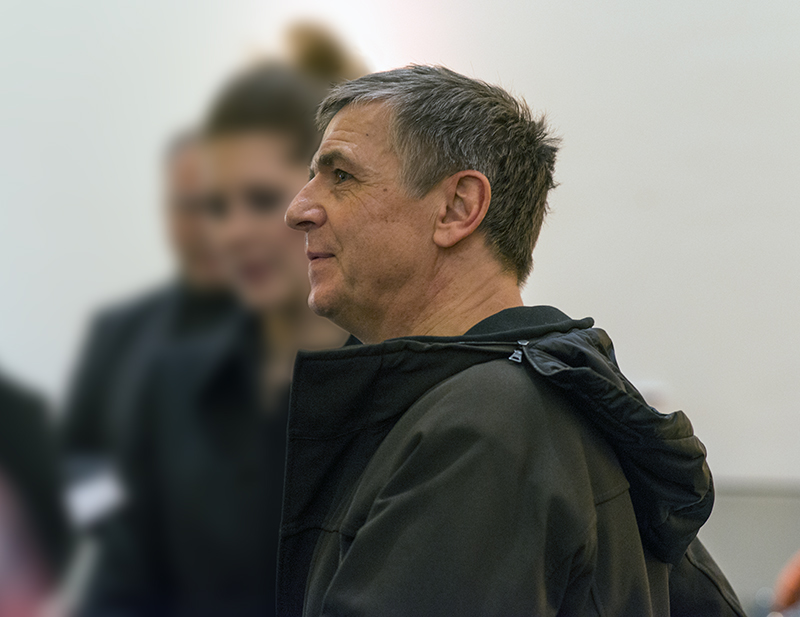 German photographer Andreas Gursky, 2013 at museum K21, Düsseldorf